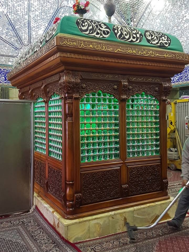 The picture represents the tomb of the great companion Camille bin Ziyad